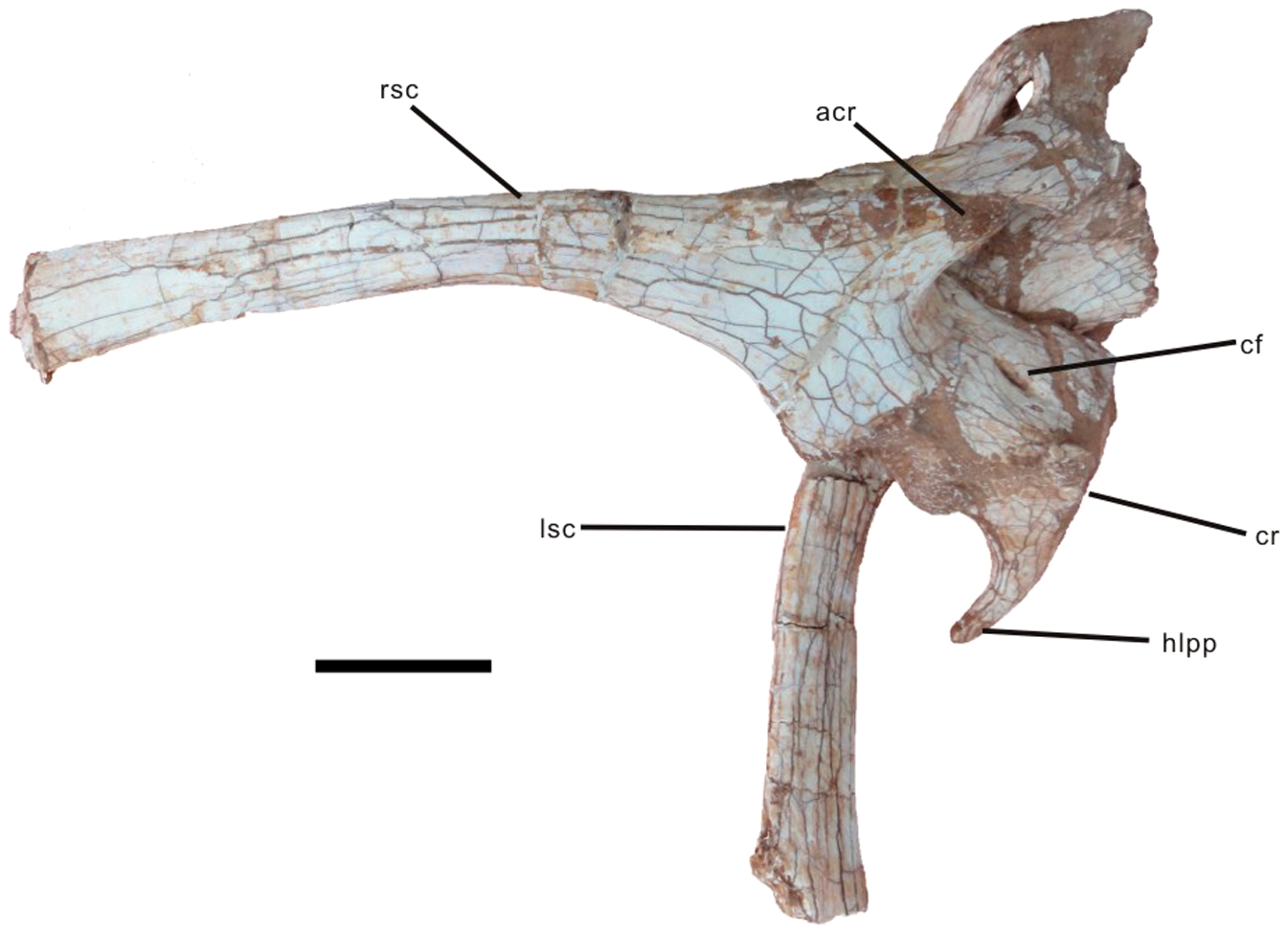 Scapulocoracoids of Nankangia (GMNH F10003) in lateral (right scapulocoracoid) and medial (left scapulocoracoid) views. Abbreviations: acr., acromion of the scapula; cf., coracoid foramen; cr., coracoid; hlpp., horn-like posteroventral process; lsc., left scapula; rsc., right scapula. Scale bar = 5 cm.